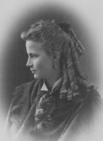 Source: Northwestern University Archives - Documenting the lives of NU women